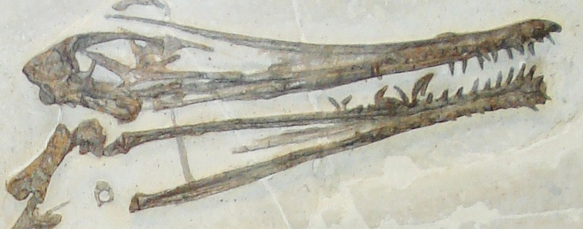 Ardeadactylus